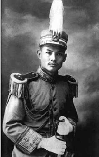 Ye Jianying in 1921